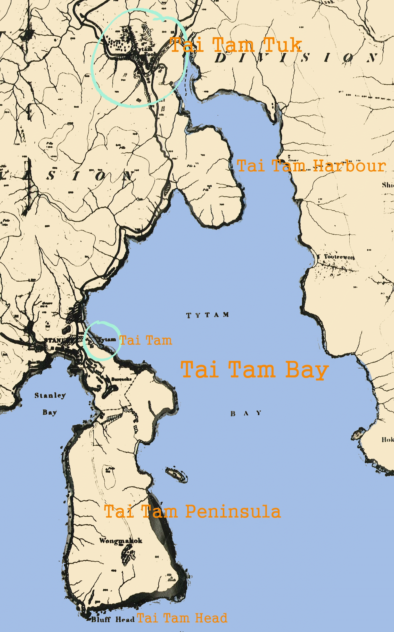 Illustrative map of Tai Tam. (png version) (Adapted from The Ordnance Map of Hong Kong 1845 by Lieut. Collinson R. E. and John Francis Davis) Created by User:HenryLi